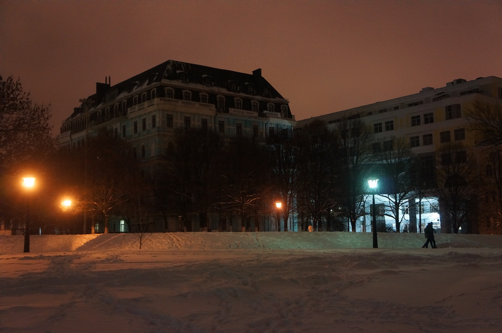 Foundation of Desyatynna (Tithe) Church in Kyiv under snow